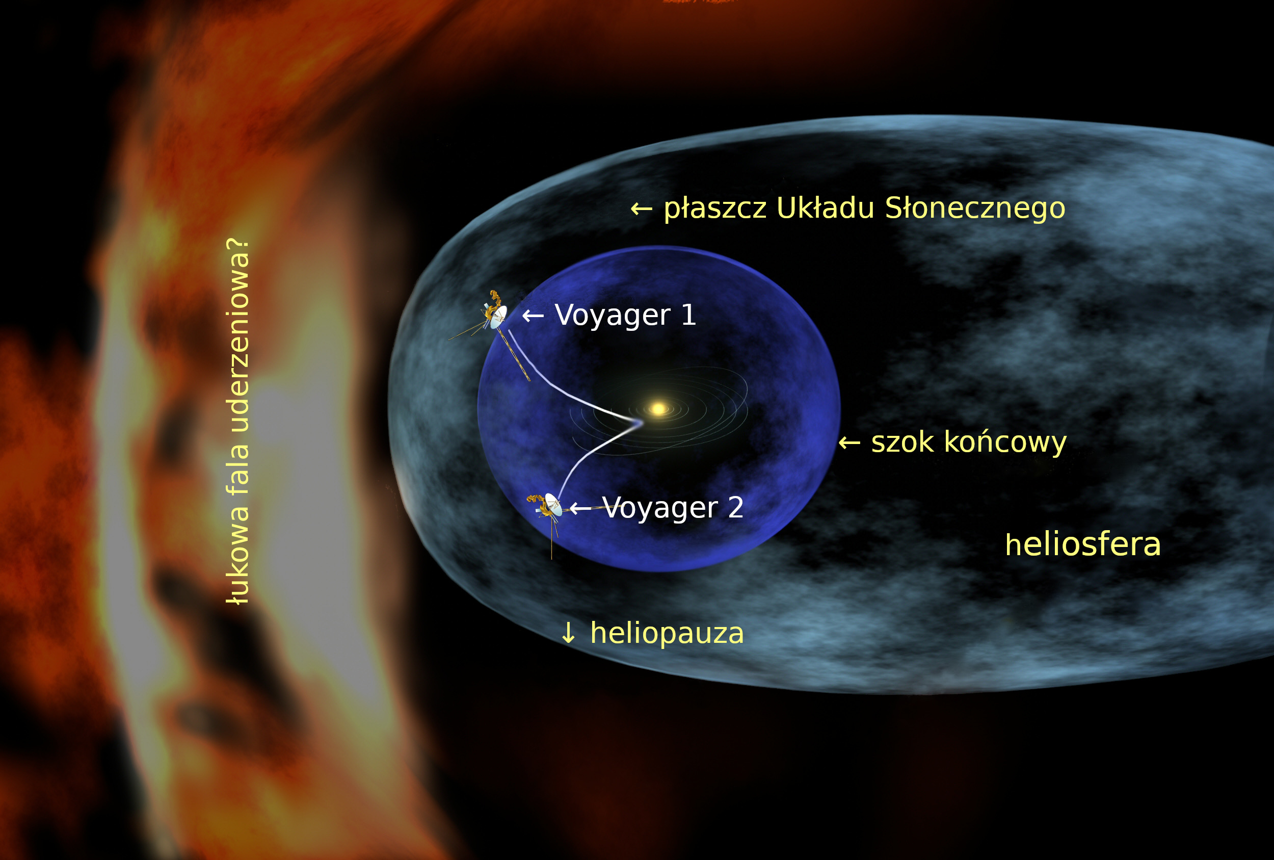 This still shows the locations of Voyagers 1 and 2. Voyager 1 is traveling a lot and has crossed into the heliosheath, the region where interstellar gas and solar wind start to mix.